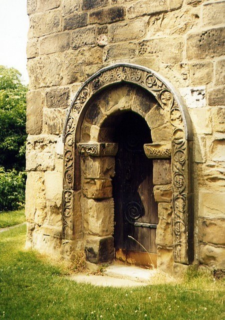 Anglo-Saxon doorway on the south side of the tower of All Saints' parish church, Ledsham, West Yorkshire. The relief carvings round the arch are 19th-century reproductions of the Anglo-Saxon originals.